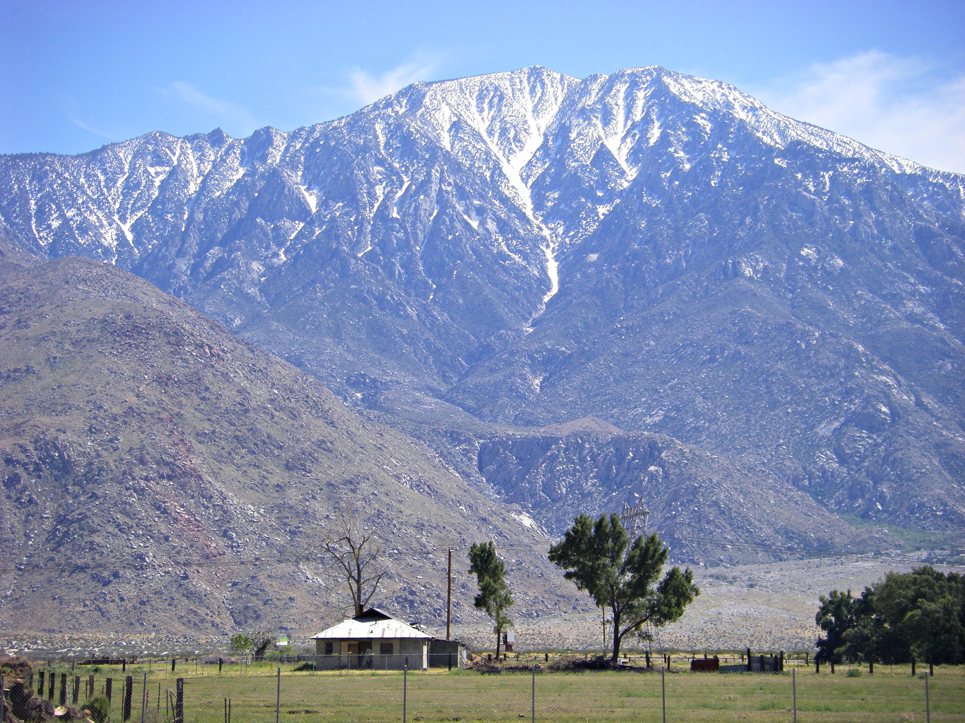 Mount San Jacinto — seen from the north. In the San Jacinto Mountains range, Riverside County, California.